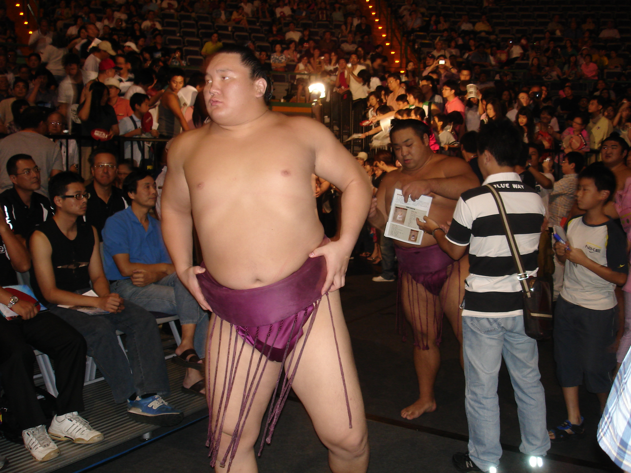 Hakuhō Shō in a tour to Taiwan on August 20, 2006. 中文（台灣）: 白鵬翔於2006年8月20日大相撲來台灣表演。